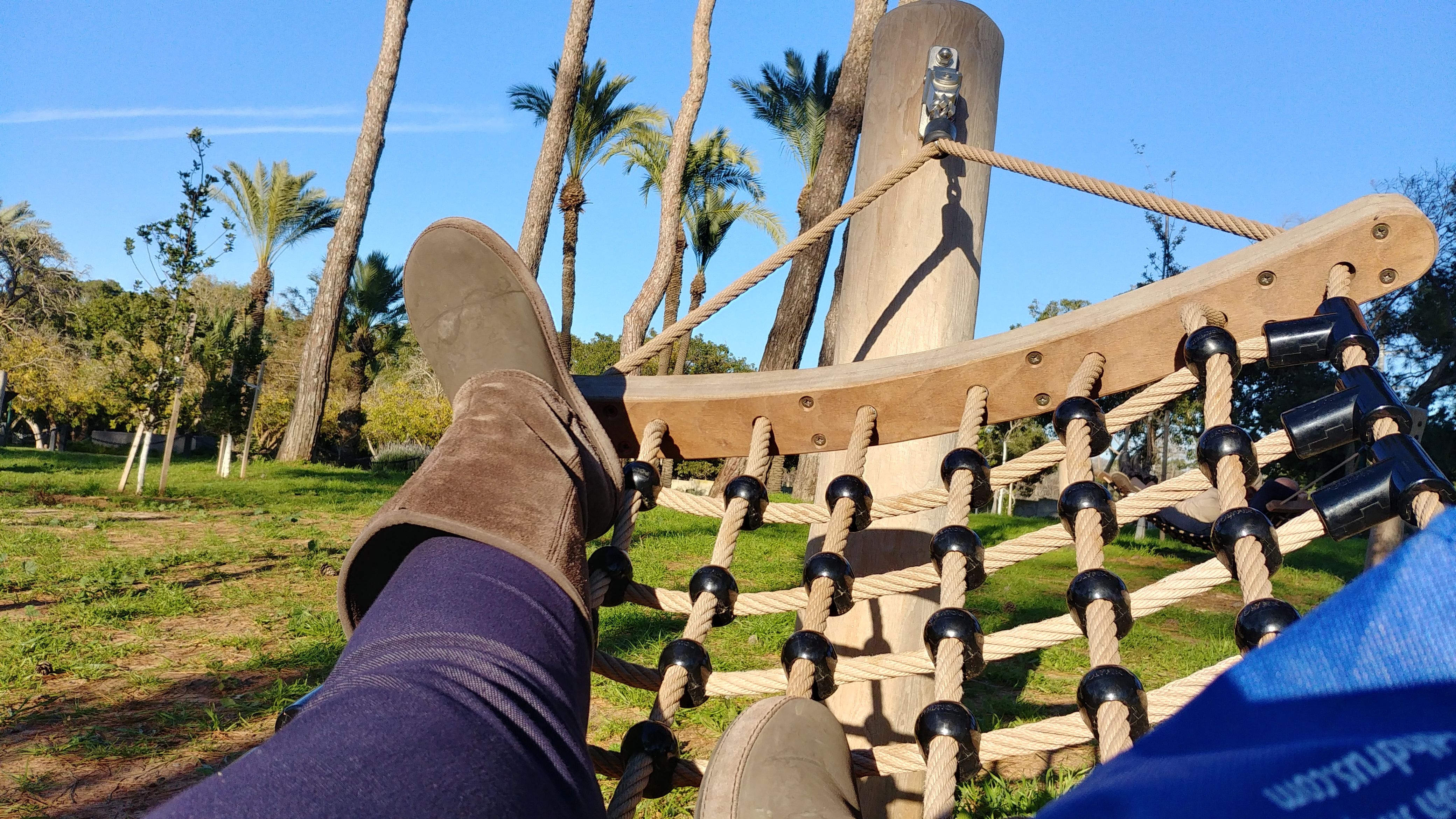 Hammock in Ramat Gan National Park, Israel